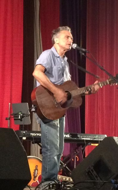 Taken during the Jimmy LaFave tribute concert at the 20th annul Woody Guthrie Folk Festival.